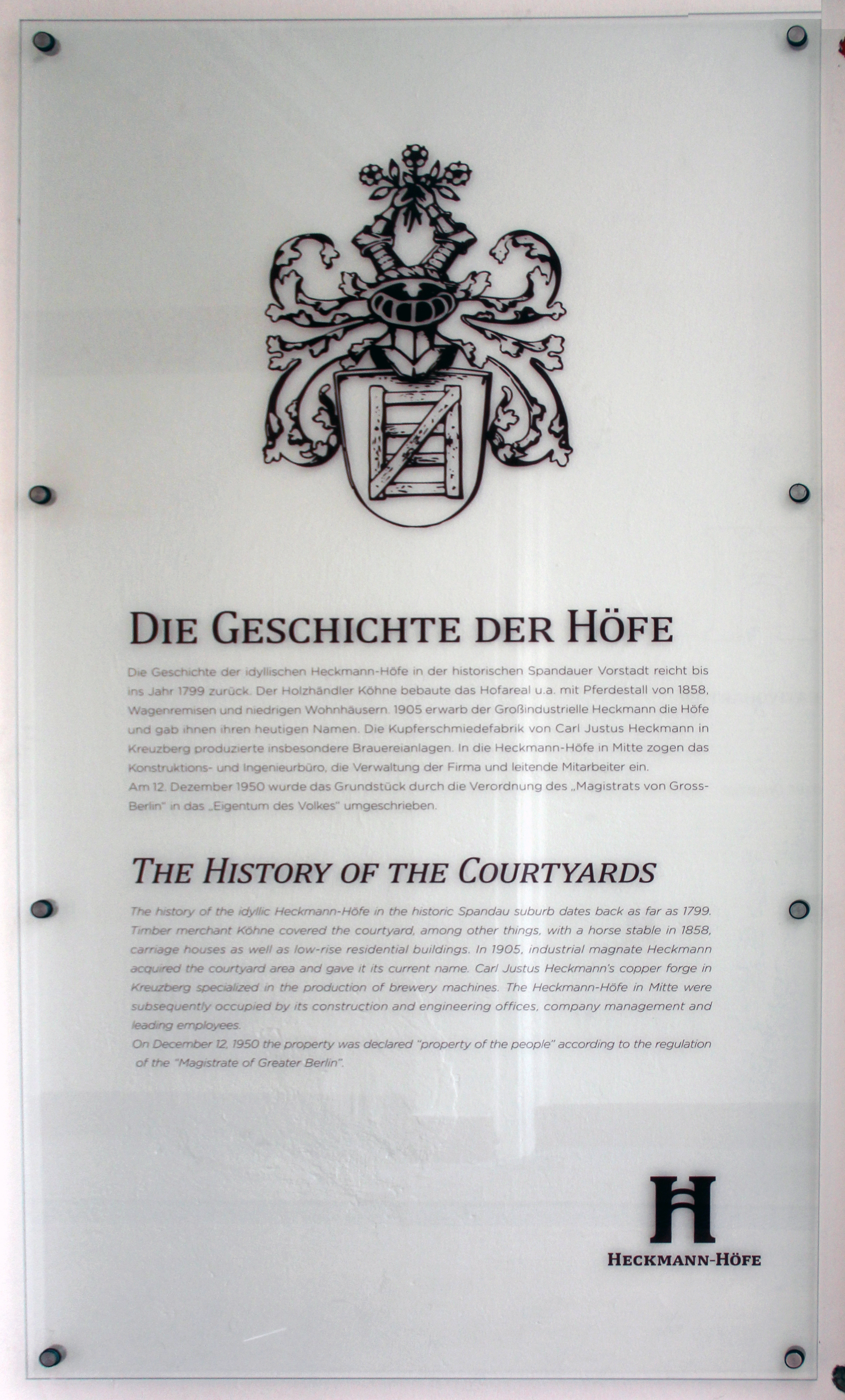 Memorial plaque, Heckmann-Höfe, Oranienburger Straße 32, Berlin-Mitte, Deutschland